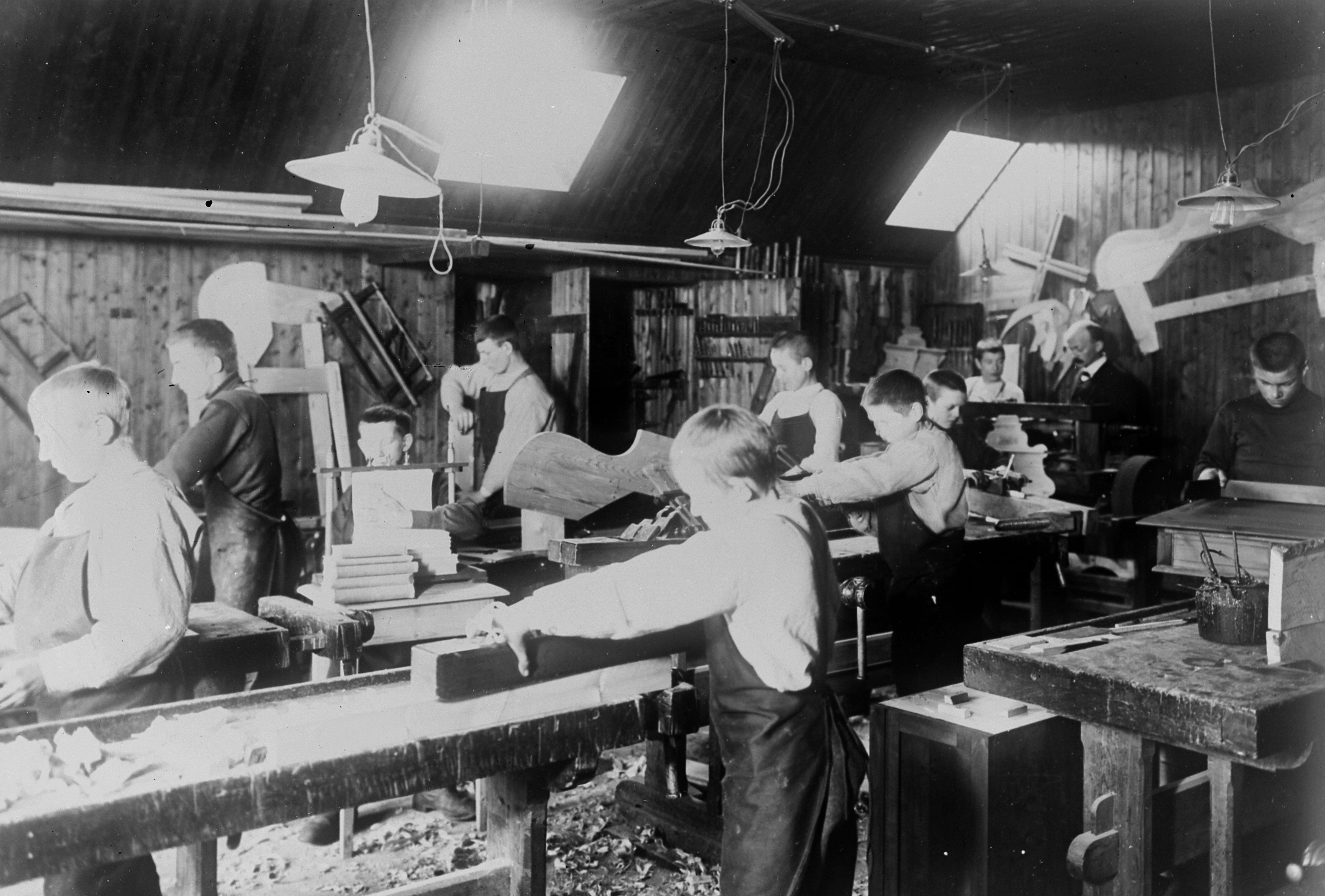 Skolehjemsgutter arbeider i sløydsalen på Falstad skolehjem. Lærer i bakgrunnen. Pupils working in the woodwork room at Falstad reformative school. Teacher in the background. Dato / Date: ca. 1915. Fotograf / Photographer: Bjerkan. Sted / Place: Falstad, Ekne, Nord-Trøndelag, Norge/Norway. Arkivreferanse / Archive reference: 0800336.